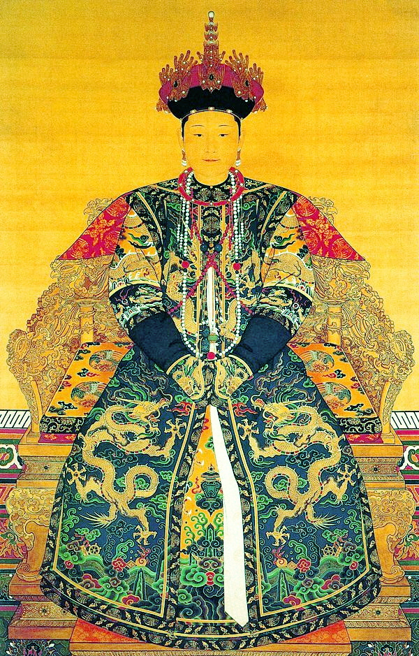 A court portrait of Empress Xiaohuizhang (1641–1717), the second empress of the Shunzhi Emperor (r. 1643–1661) of the Qing dynasty.